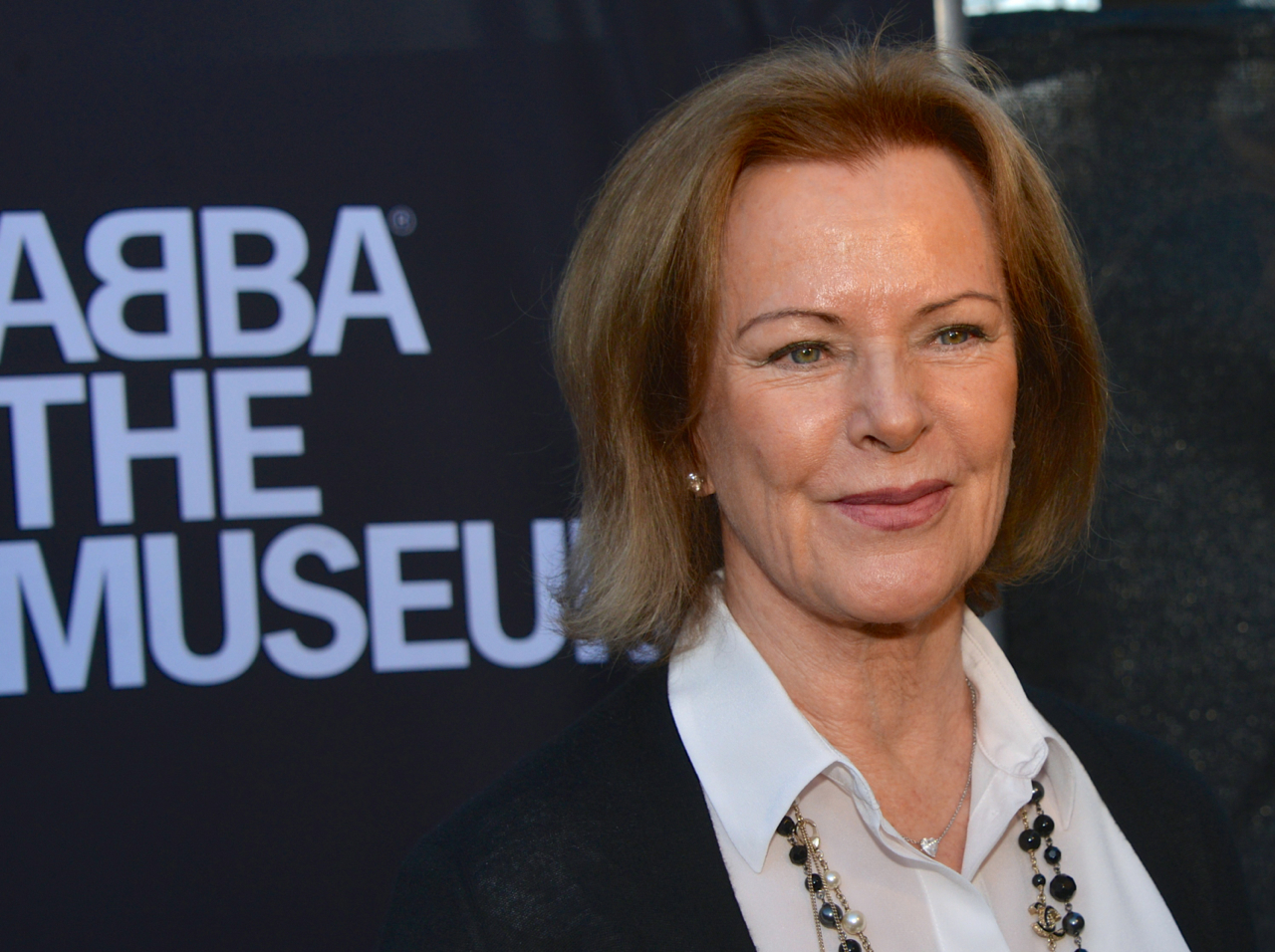 Anni-Frid Lyngstad during the opening of ABBA: The Museum May 6, 2013.